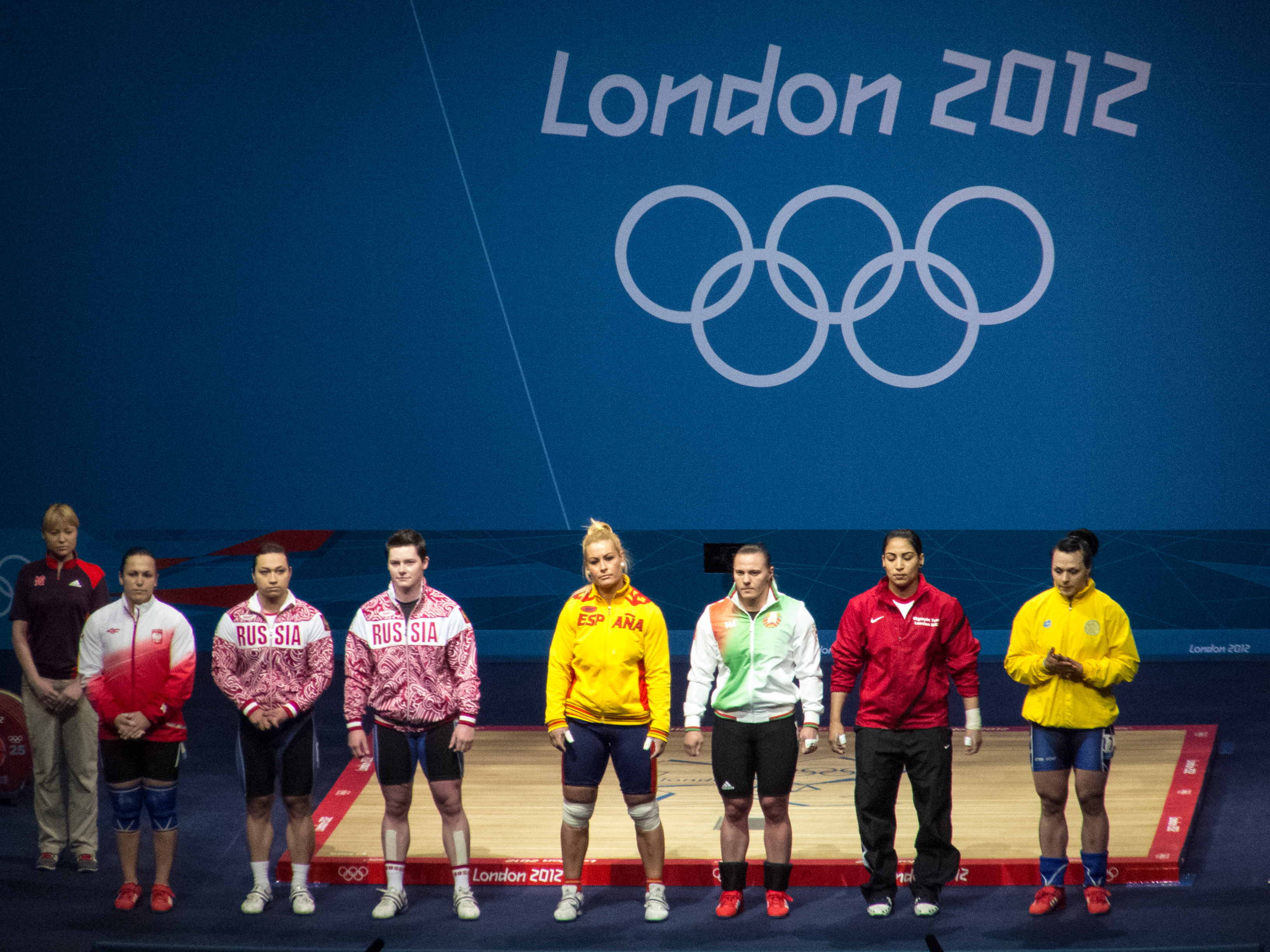 Left-right: Ewa Mizdal, Nadezhda Yevstyukhina, Natalia Zabolotnaya, Lidia Valentín, Iryna Kulesha, Abeer Abdelrahman, Svetlana Podobedova, 2012 Olympics, weightlifting under 75 kg